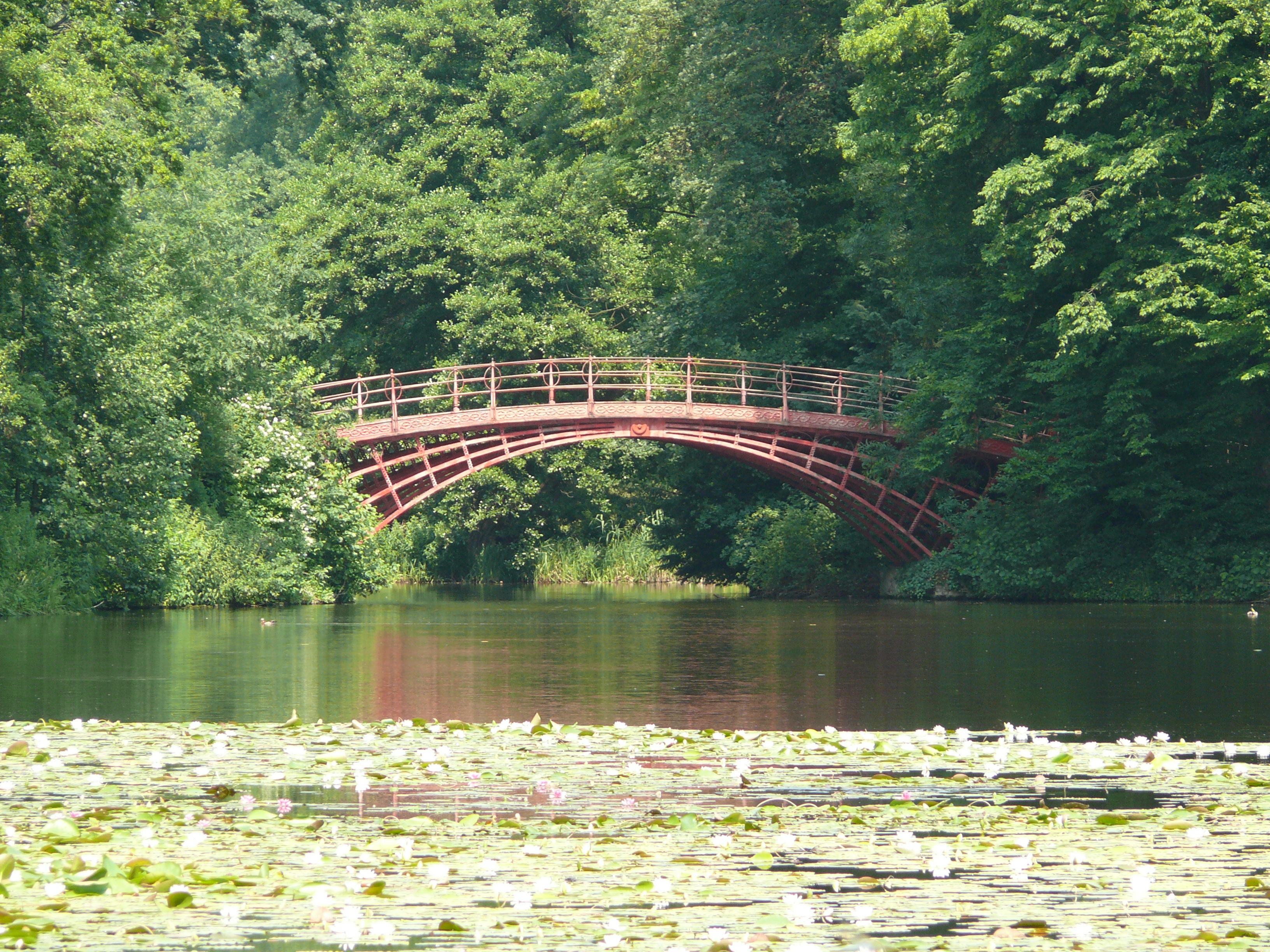 Berlin-Charlottenburg Schlosspark Hohe Brücke